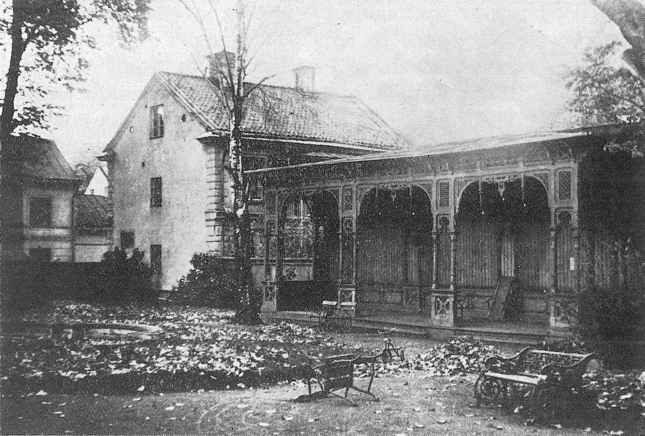 Kalmar Nation first house: Garden, loggia and fountain.